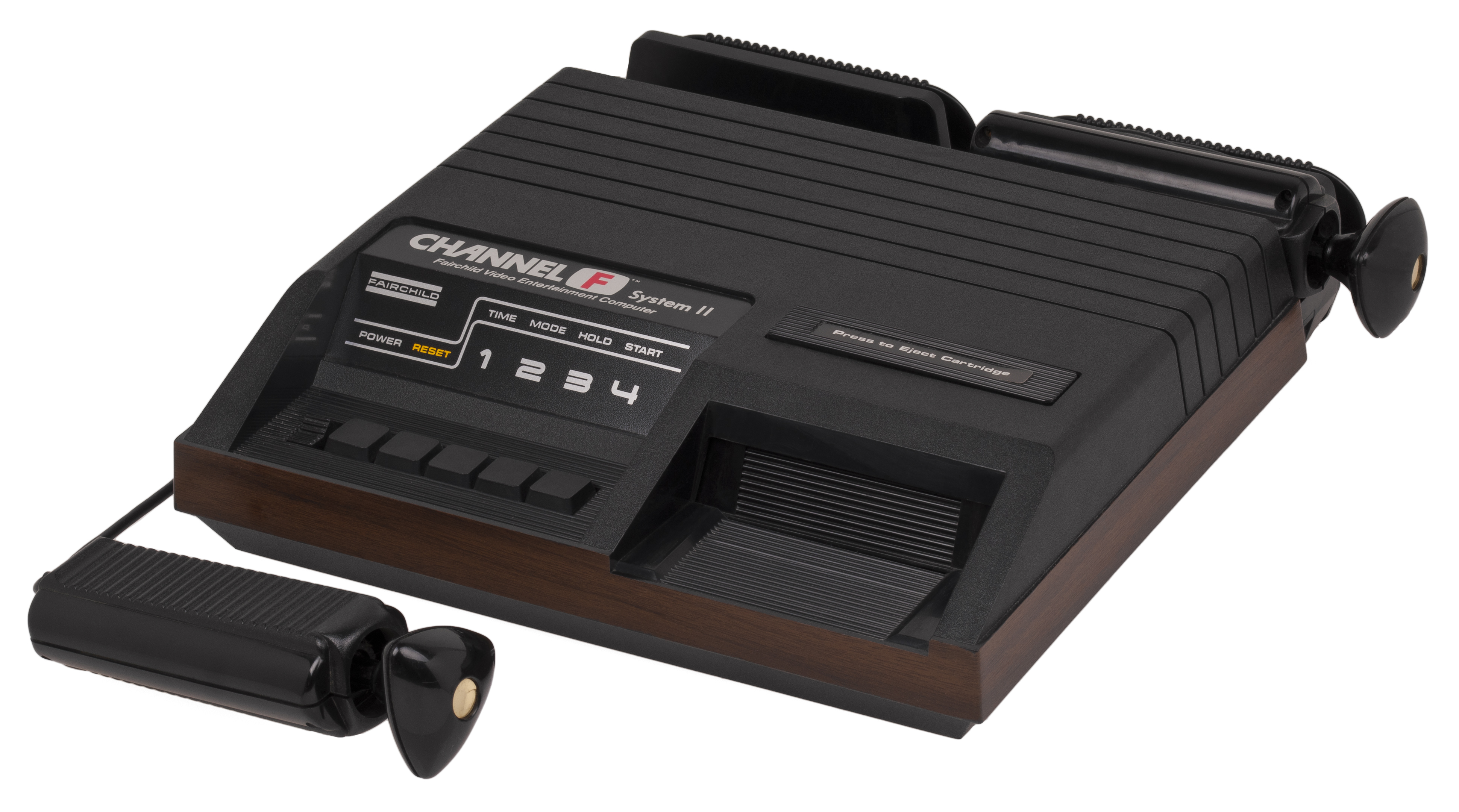 The Fairchild Channel F System II video game console. Released in 1979, it is a moderately improved version of the original Channel F.